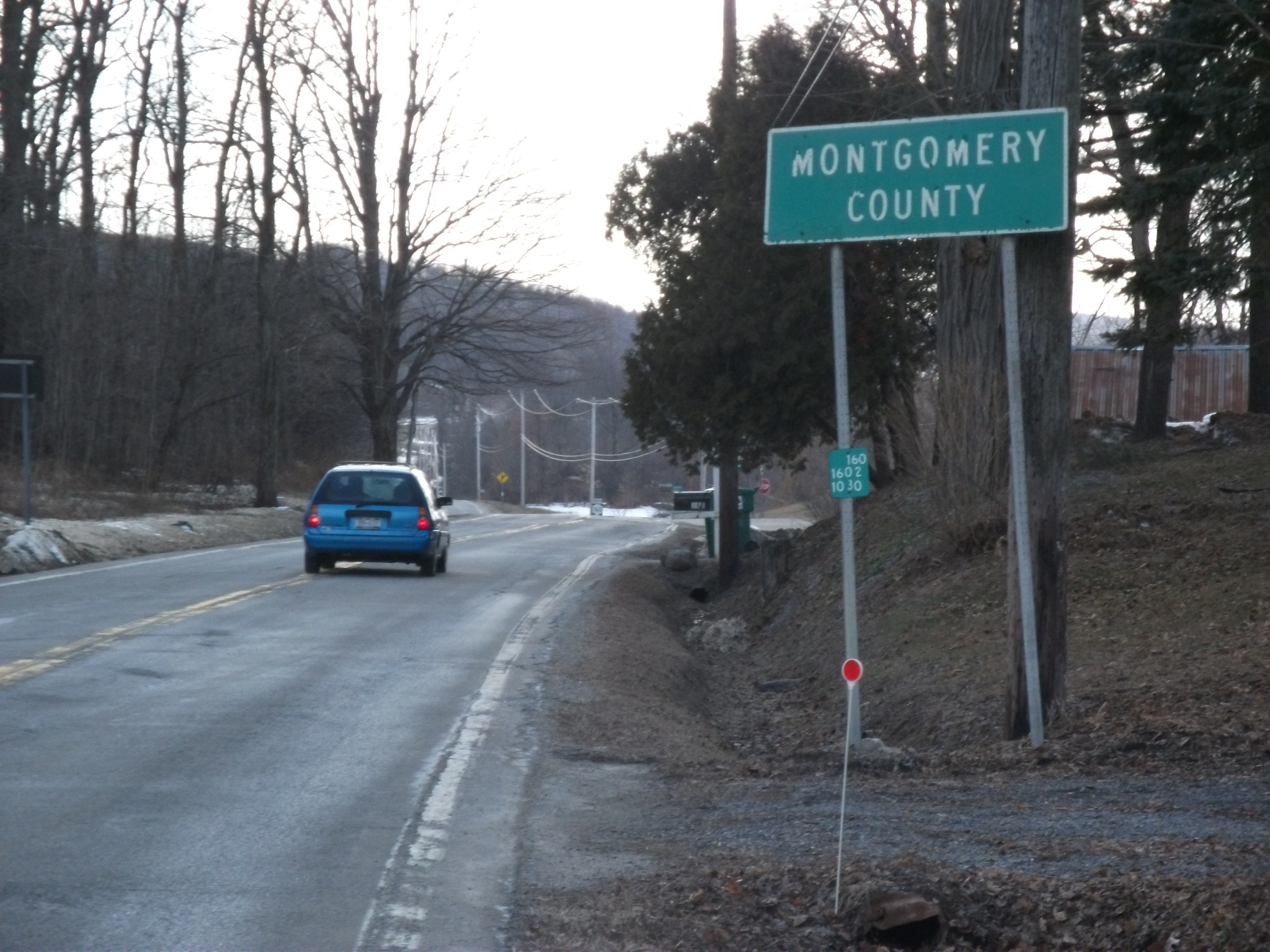 New York State Route 160 crossing into Montgomery County from Schenectady County.